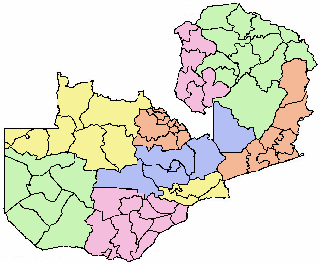 See also these pages: Provinces of Zambia Districts of Zambia